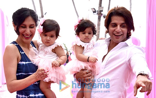 Karanvir Bohra and Teejay Sidhu’s daughter’s birthday bash